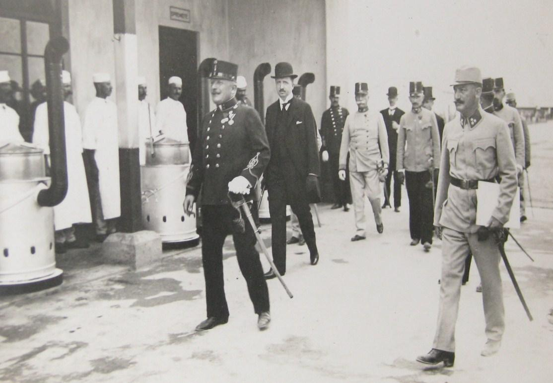 Vice-roy of Croatia Ivan Skerlecz visit the hospital during the WWI